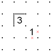 Slitherlink; Diagonals of a 3 and 1